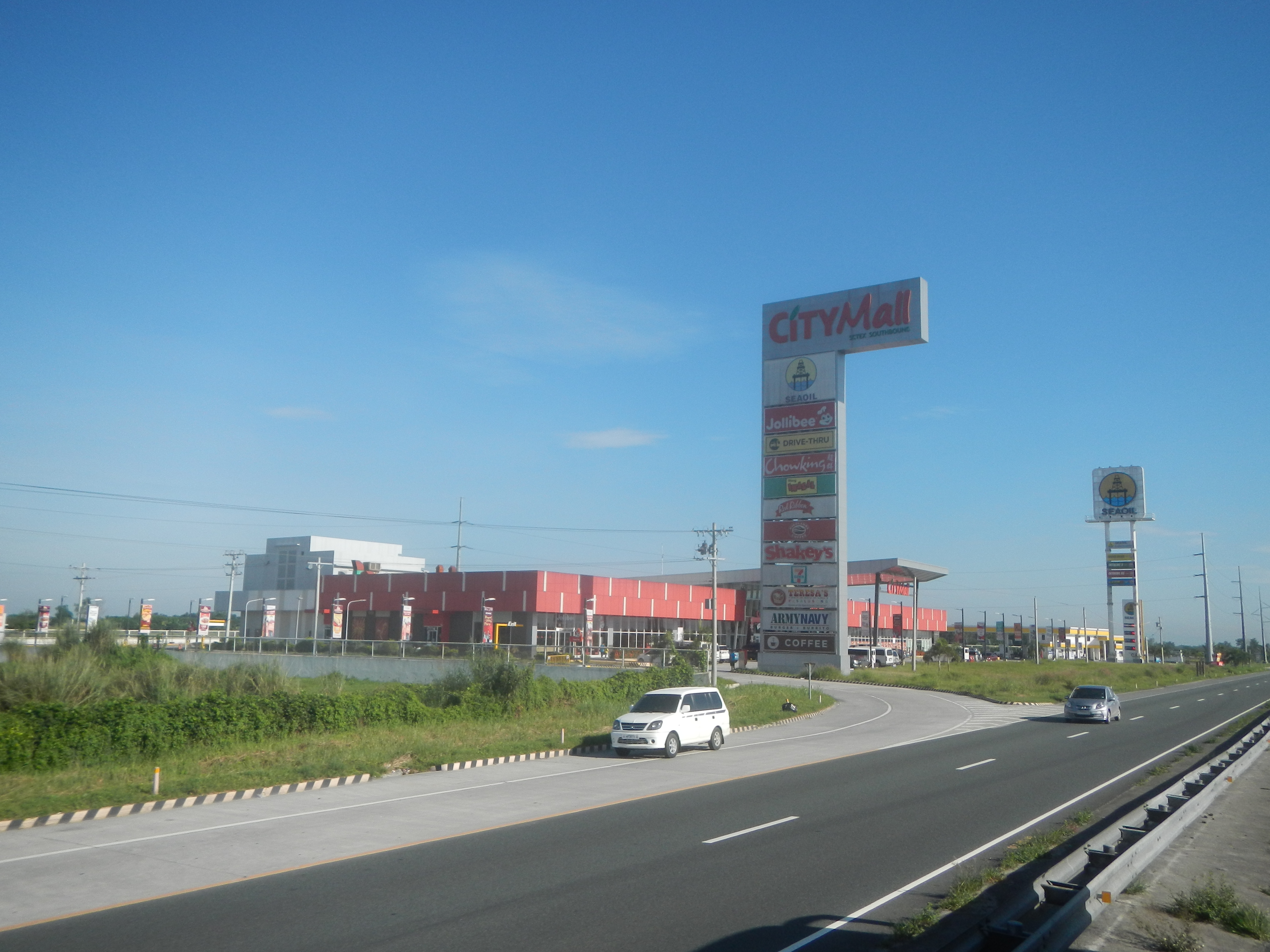 Sacobia-Bamban Main Bridge Bamban Dike Maintenance Road Underpass CityMall SCTEX Concepcion Hacienda Luisita Interchange Bridge SCTEX Toll Barrier Central Luzon Link TIPLEX Dau, Mabalacat Dau Interchange NGAC New Clark City interchange Entry and Exits National Government Administrative Center NEW CLARK CITY-SCTEX interchange PHP3.5-billion access road to New Clark City from the Subic-Clark-Tarlac Expressway (SCTEX) SCTEX-New Clark City access road Subic–Clark–Tarlac Expressway to Central Luzon Link Expressway Central Luzon Link Expressway Tarlac City Interchange Terminus Entry and Exits Philippine highway network (Note: Judge Florentino Floro, the owner, to repeat, Donor Florentino Floro of all these photos hereby donate gratuitously, freely and unconditionally Judge Floro all these photos to and for Wikimedia Commons, exclusively, for public use of the public domain, and again without any condition whatsoever).